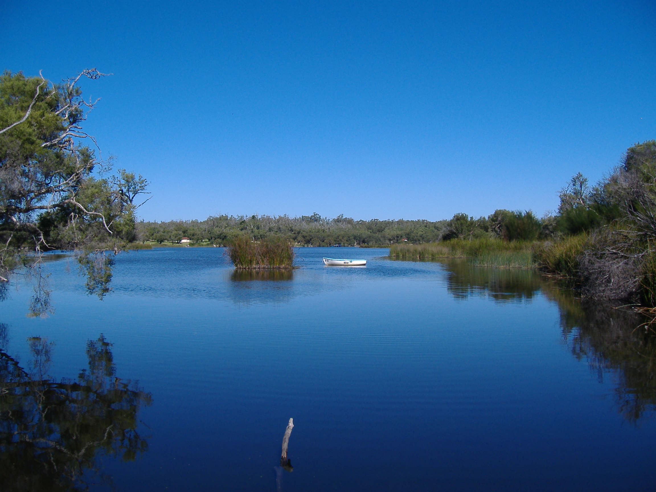 Yanchep National Park